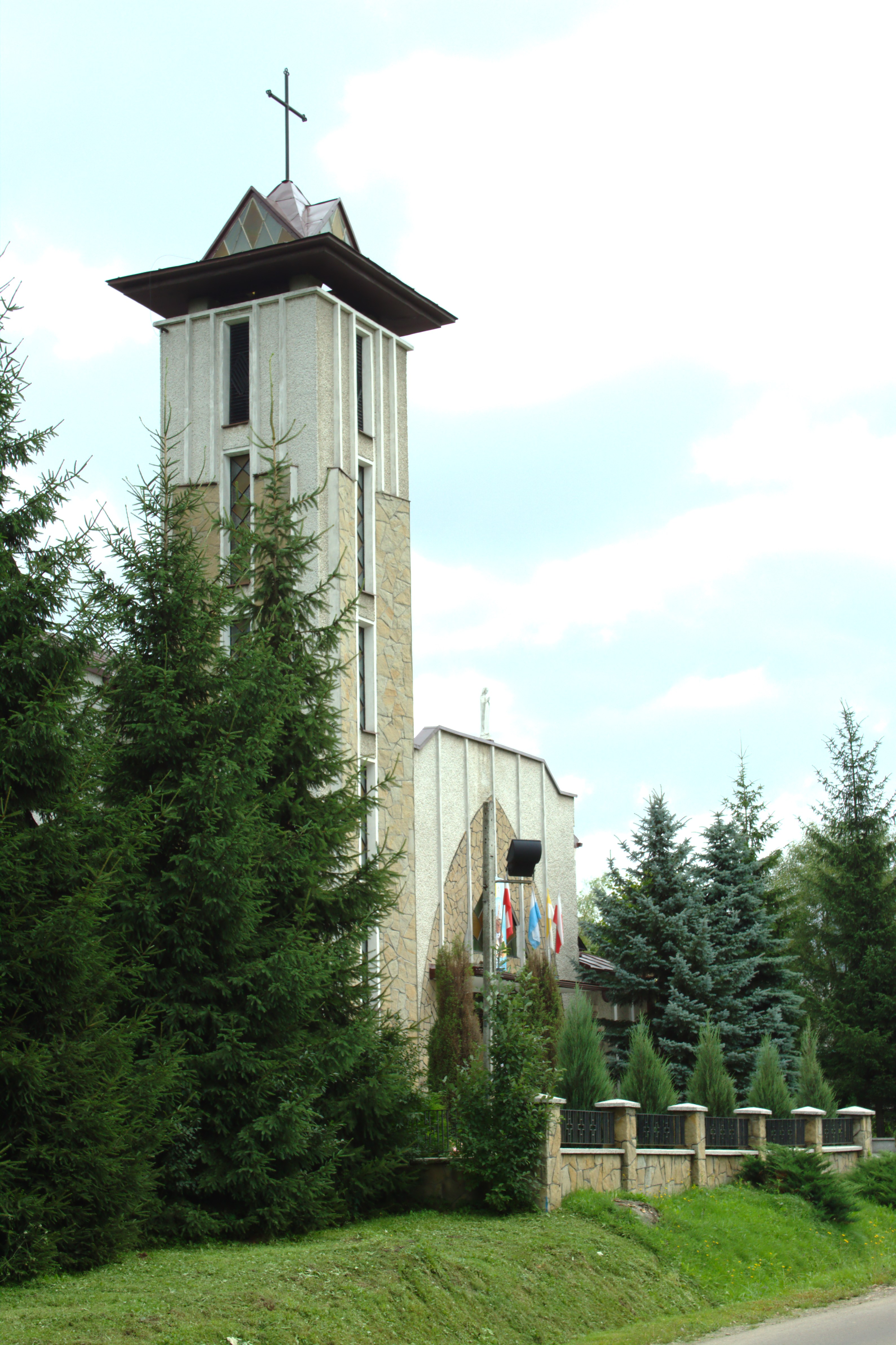 A church in Niebocko, Podkarpackie Voivodeship, Poland